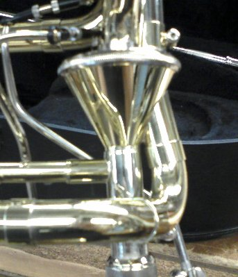 Thayer Valve on a Getzen 3062AF Bass Trombone